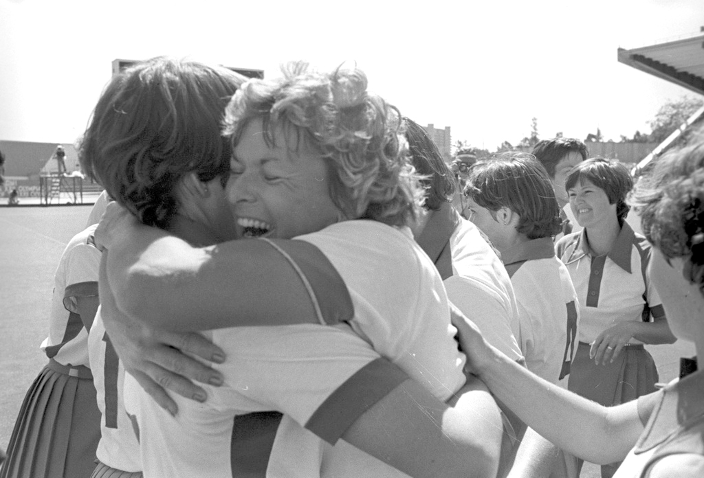 “Women's field hockey team from Zimbabwe”. The women's field hockey team of Zimbabwe became the 1980 Summer Olympics Champion in women's field hockey. XXII Summer Olympics in Moscow. Small Sports Arena of Moscow's Luzhniki Stadium.